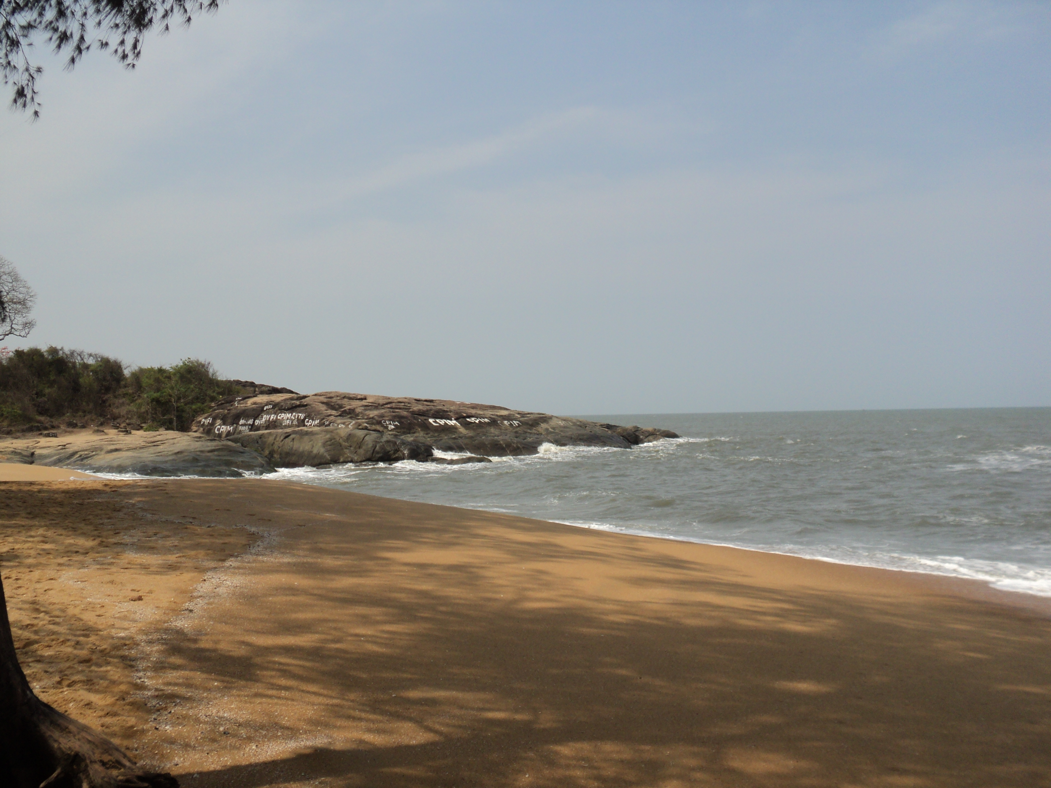 Seashore of Kappad